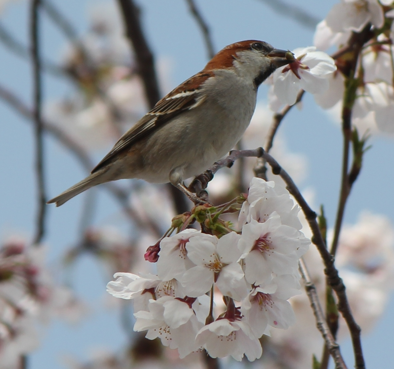 Russet Sparrow(Passer rutilans), male eating Prunus × yedoensis, in Aichi prefecture, Japan.